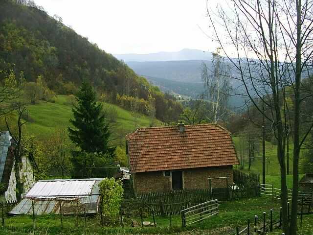 The village of Gornje Međuše near Trebević, BiH